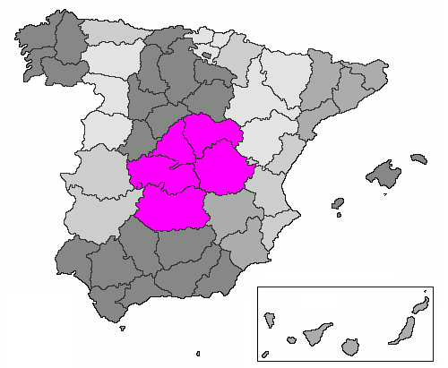 Map of the historical region of Castilla la Nueva, in modern day Spain. Corrected version of the file "Castilla la Nueva1.png", uploaded by "Xufanc".